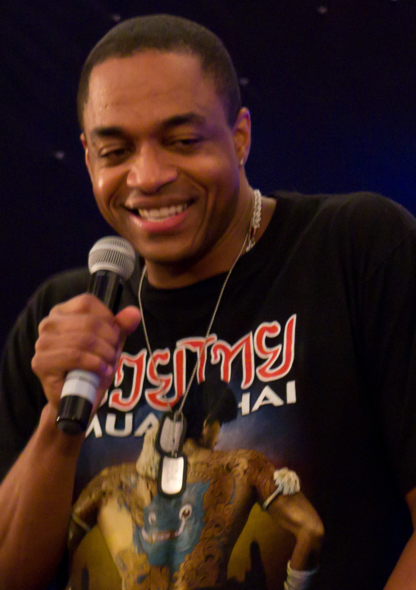 Todd Williams & Rick Worthy